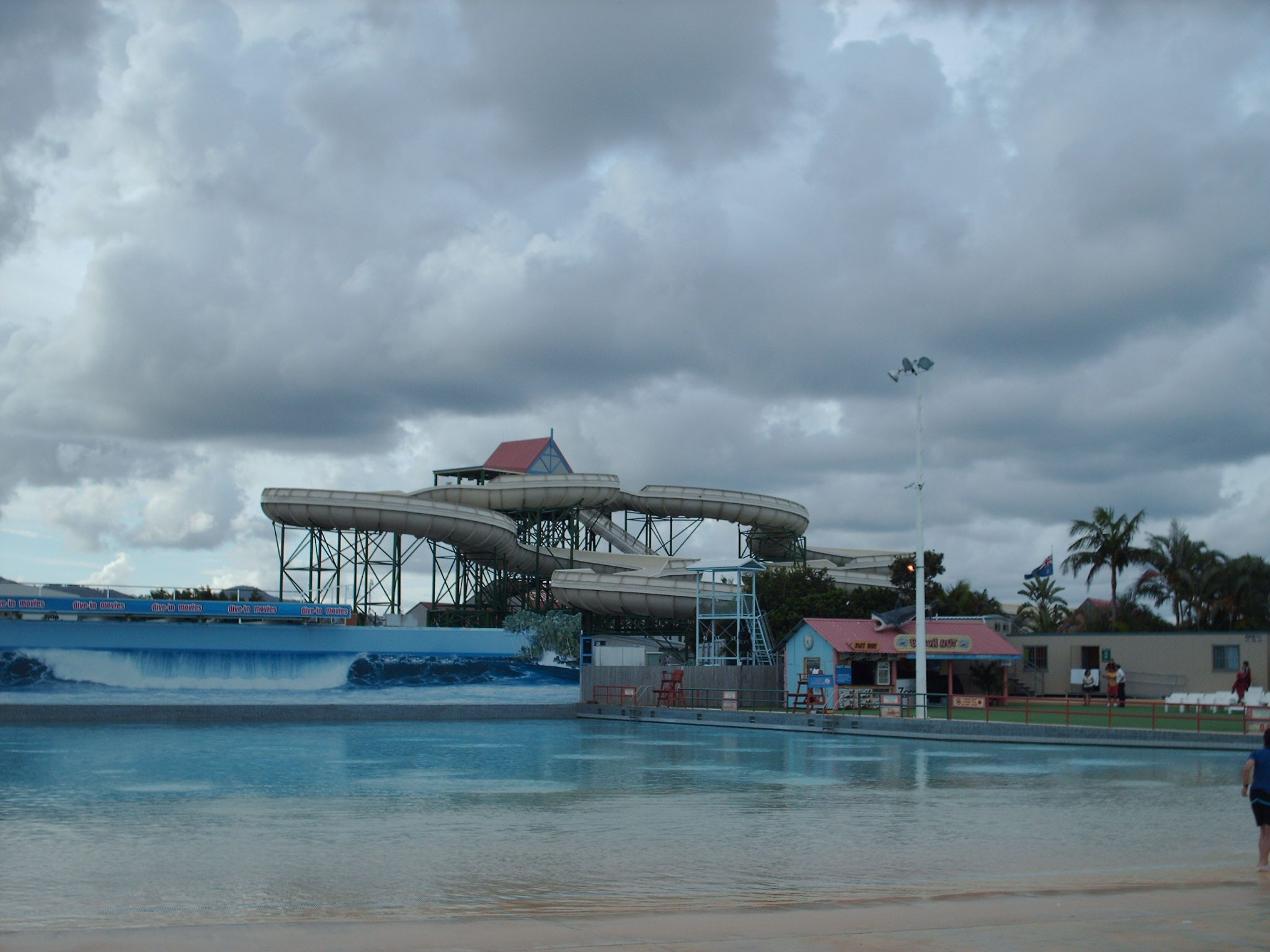 The Mammoth Falls attraction at Wet'n'Wild Water World